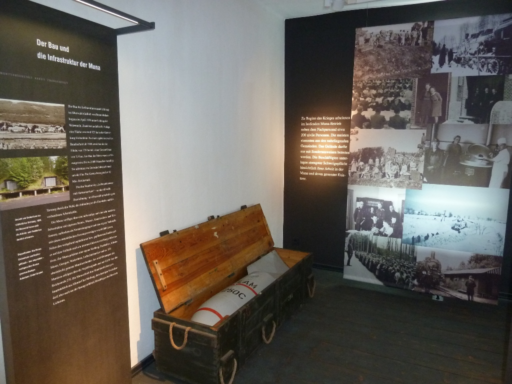 Exhibition Room in the Muna-Museum Grebenhain.